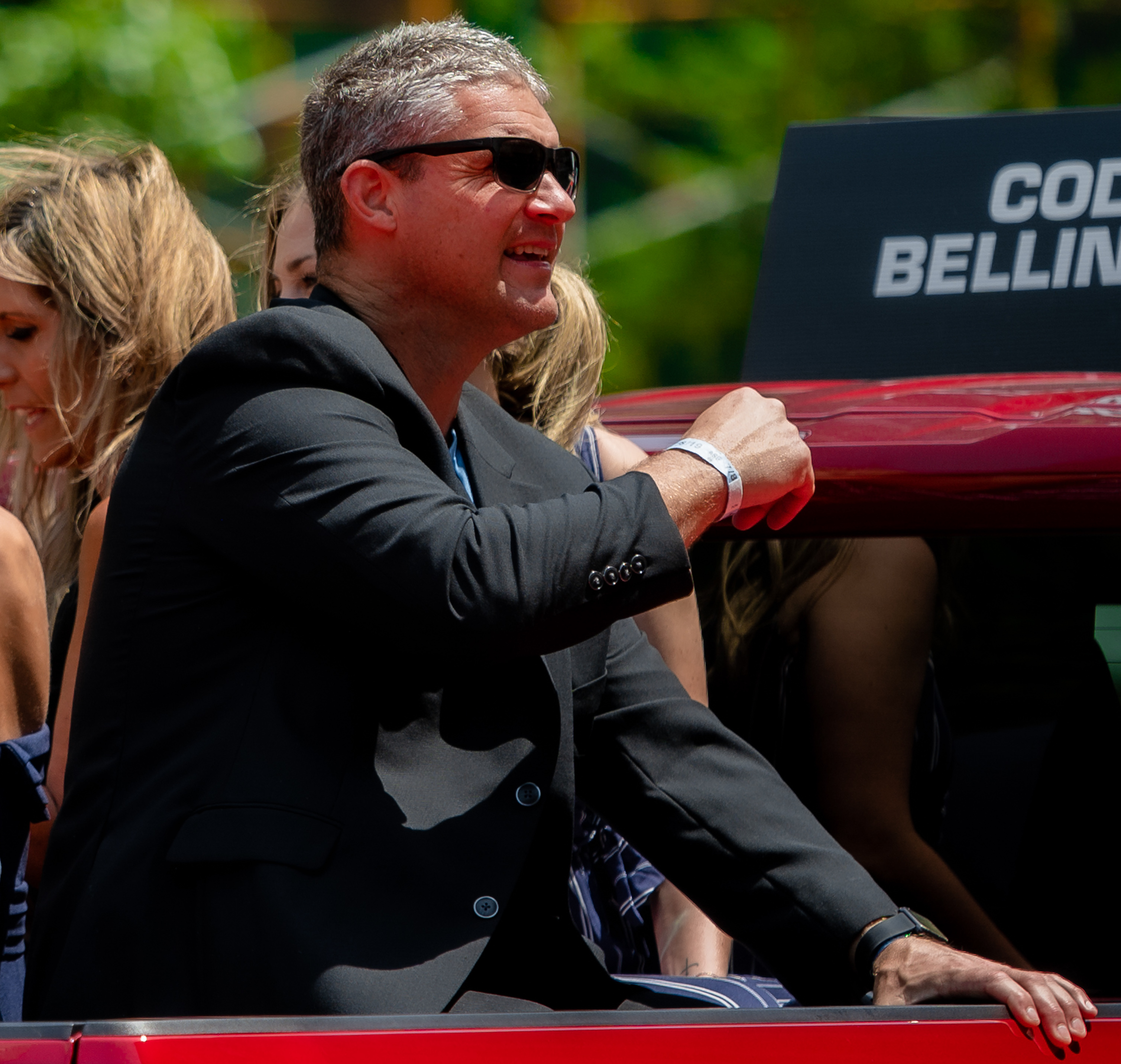 Cody and Clay Bellinger during the 2019 Major League Baseball All-Star Parade in Cleveland